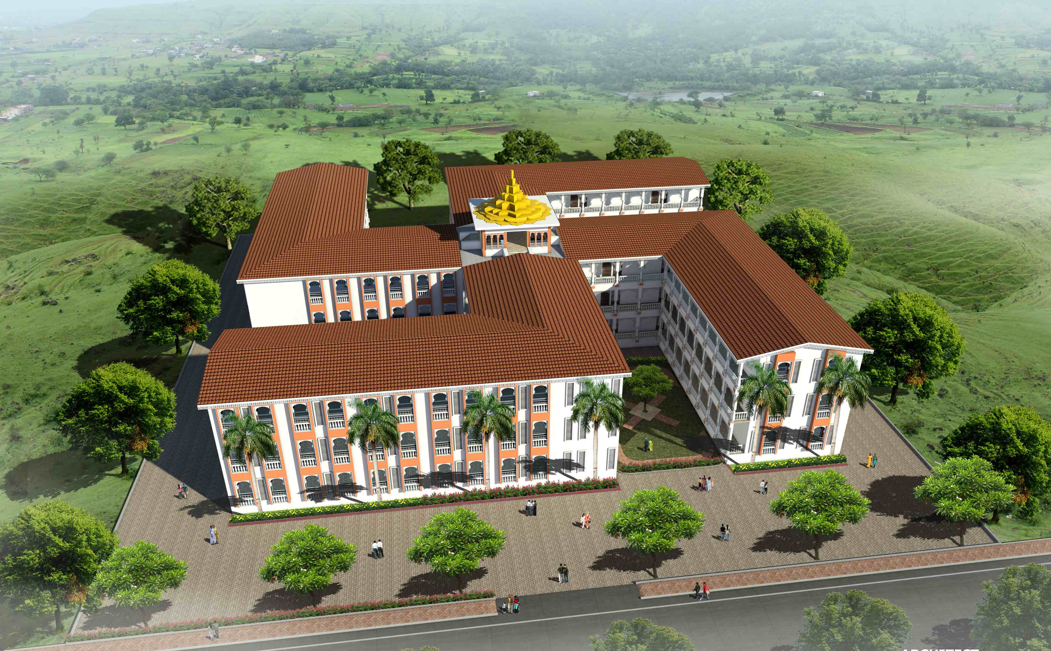 Proposed plan of CSMMIH Museum